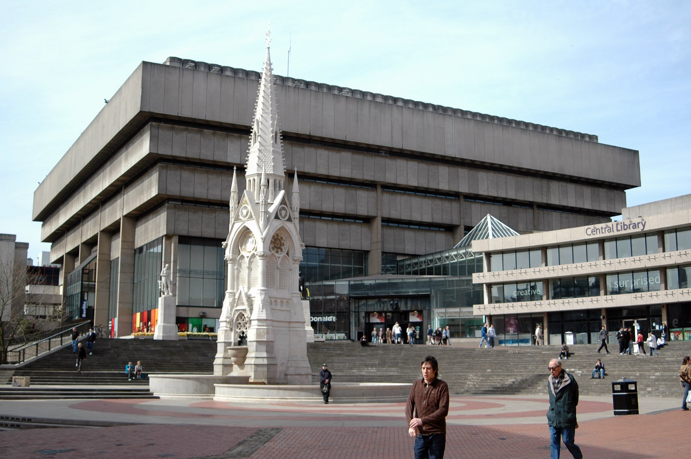 A view of Chamberlain Square in Birmingham. The Chamberlain Memorial is in the centre, with the former Birmingham Central Library and Paradise Forum behind it.